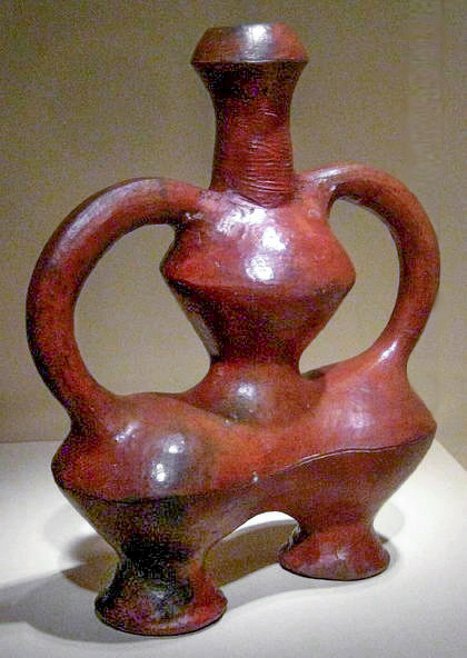 Teke peoples ceramic vessel originally from the Republic of Congo. Ceramic, pigment, H x W x D: 25.7 x 21 x 9 cm . Now in the National Museum of African Art, Washington, DC.